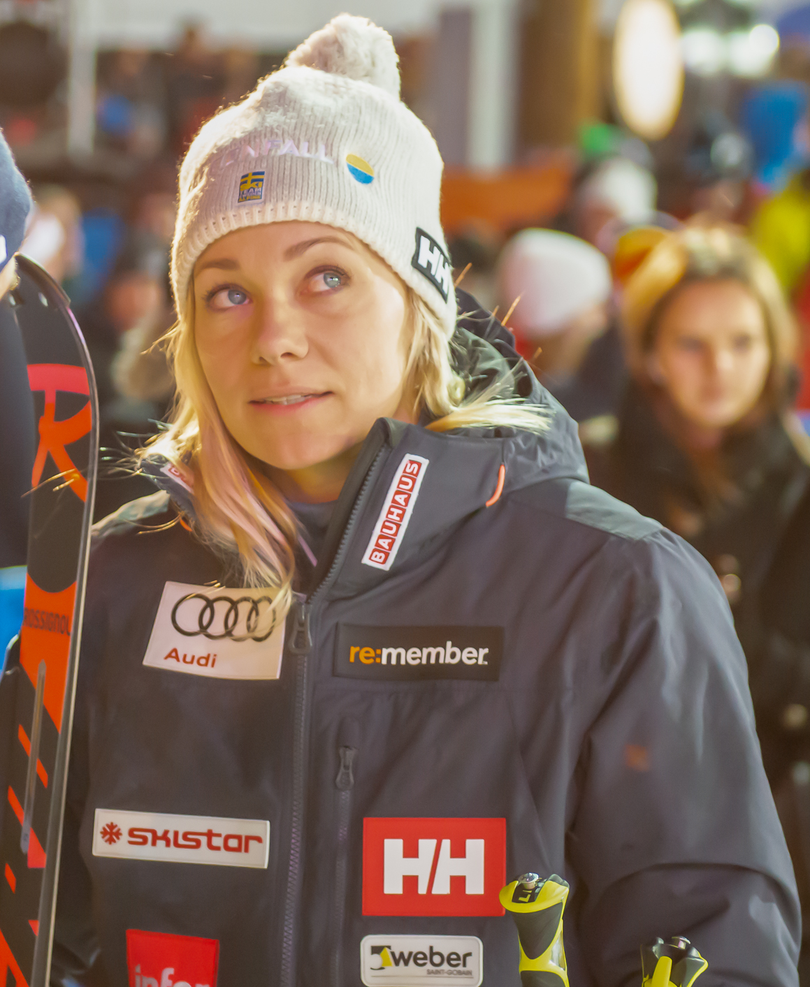 FIS Alpine Skiing World Cup in Stockholm 2019